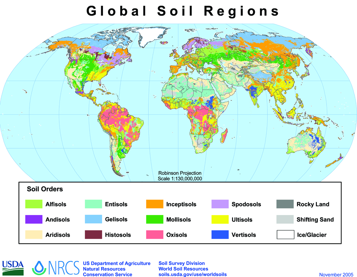 Global Soil Regions Map